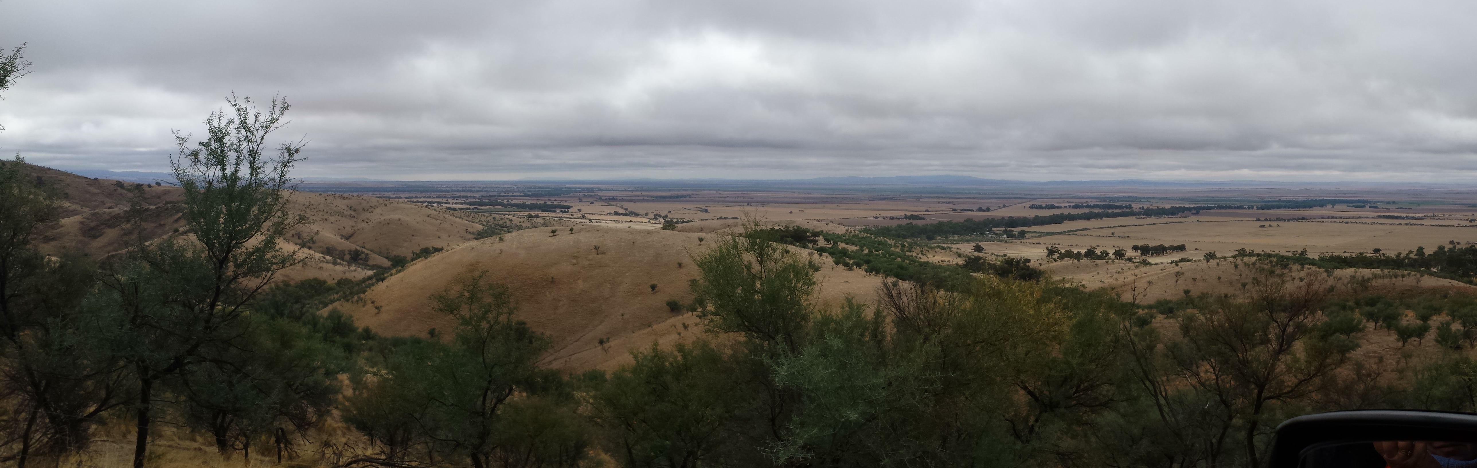 Willochra Plain from the Spring Creek Mine Rd in the Mount Remarkable National Park.